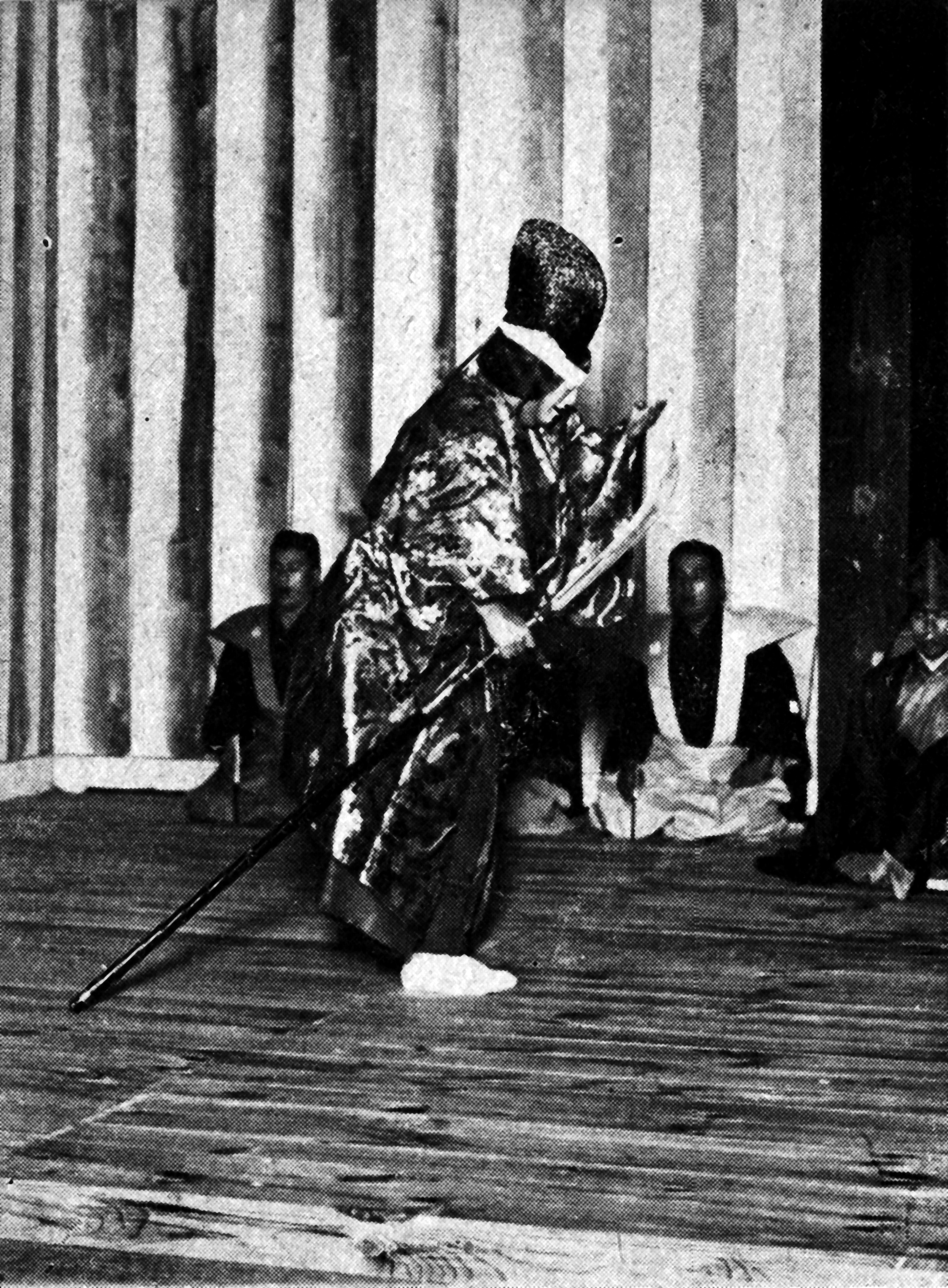 stage photo: Noh play Tomoe, KITA Minoru